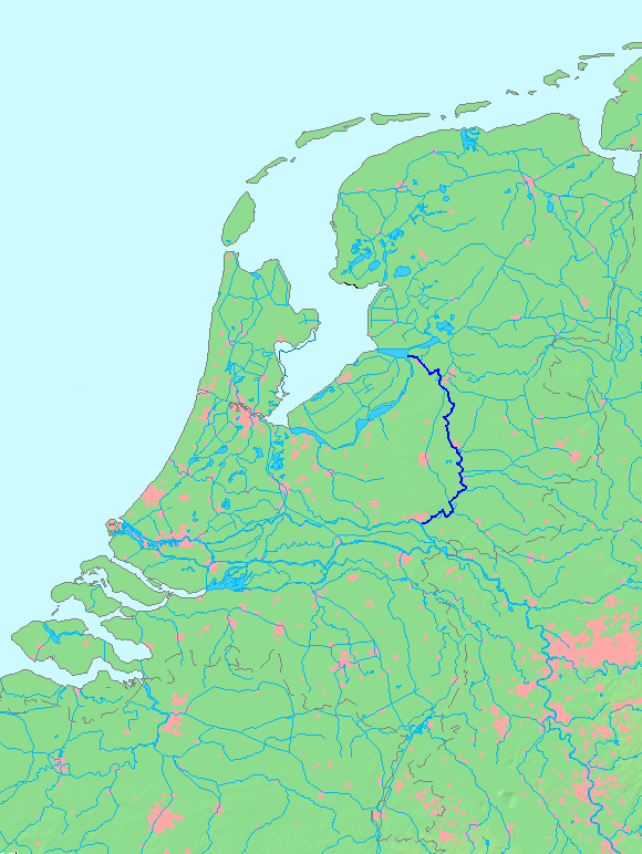 Location of a waterway (river/canal) in the Netherlends